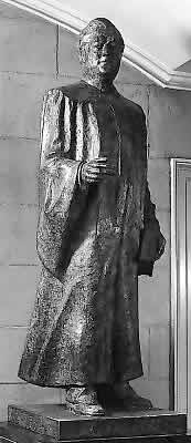 Statue of Patrick Anthony McCarran at NSHC